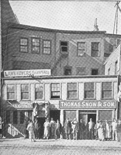 Former building of the Market Museum, (near Market Square), Boston, ca.1895